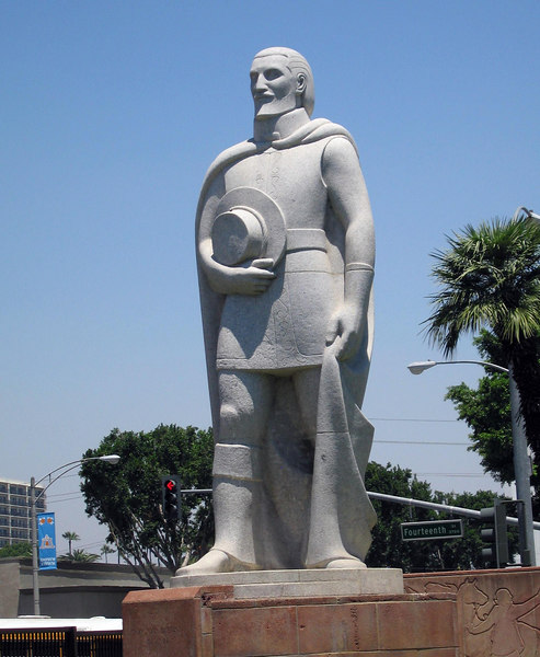 Statue of Juan Bautista de Anza, in Riverside, Southern California. The statue was designed by sculptor Sherry Peticolas, and the cast bas-relief mural behind it was designed by artist Dorr Bothwell. The statue and mural were erected in 1939, with a combination of local funds and the Works Progress Adminstration (WPA) support. Credits Photo taken 25 May 2006 by Takwish with a Canon PowerShot S70. MissionInn.Jim (talk) 15:15, 23 August 2009 (UTC)